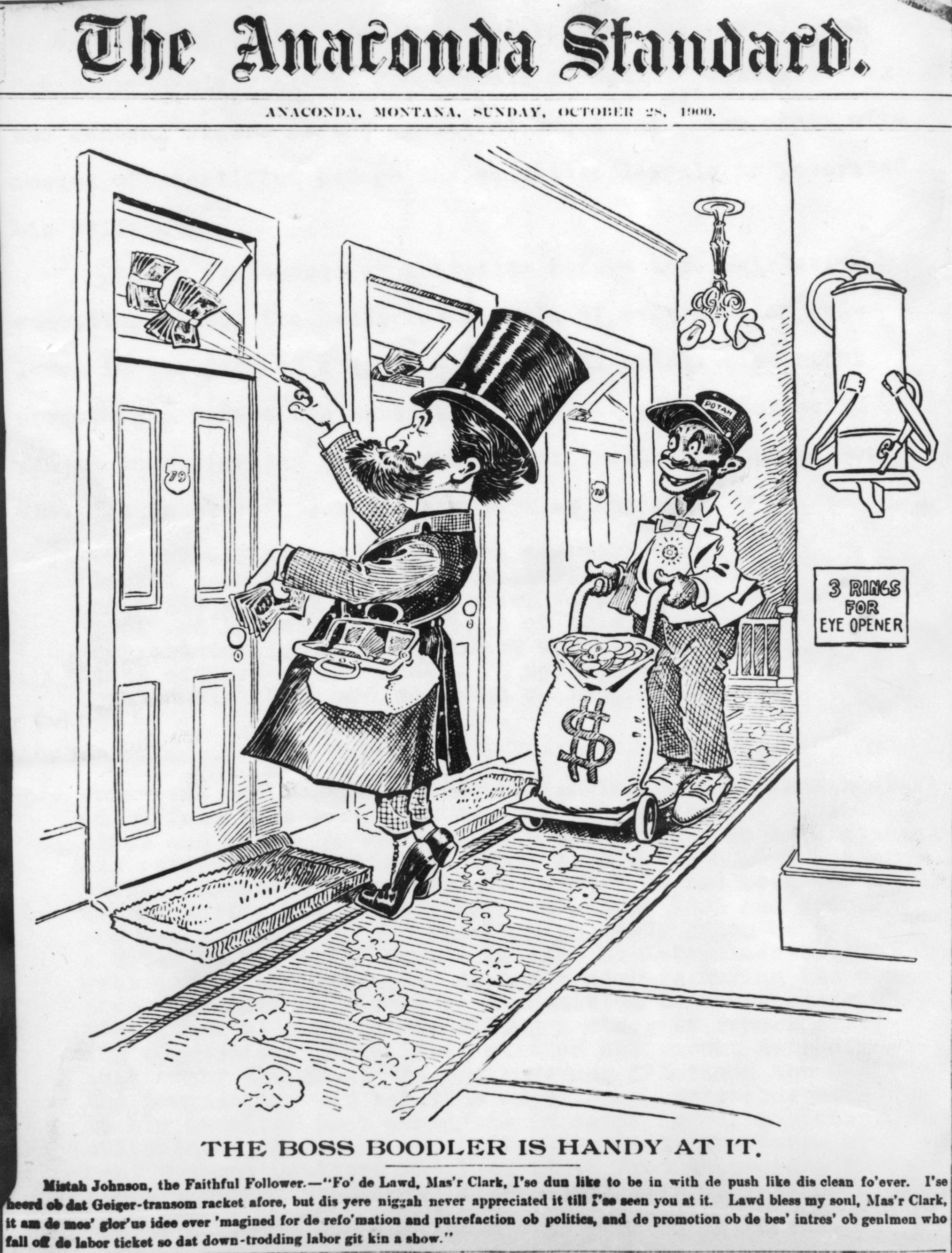 Political cartoon from the 28 October 1900 issue of The Anaconda Standard (Montana) depicting the multimillionaire William A. Clark bribing state legislators to vote for him to become the United States Senator from Montana. Clark is throwing wads of money through hotel transom windows. John H. Geiger, a state senator from Flathead County, had testified before the Senate Committee on Privileges and Elections in Washington, DC, that a package containing $1100 had been, he believed, thrown through the transom to the floor of his hotel room in Helena.